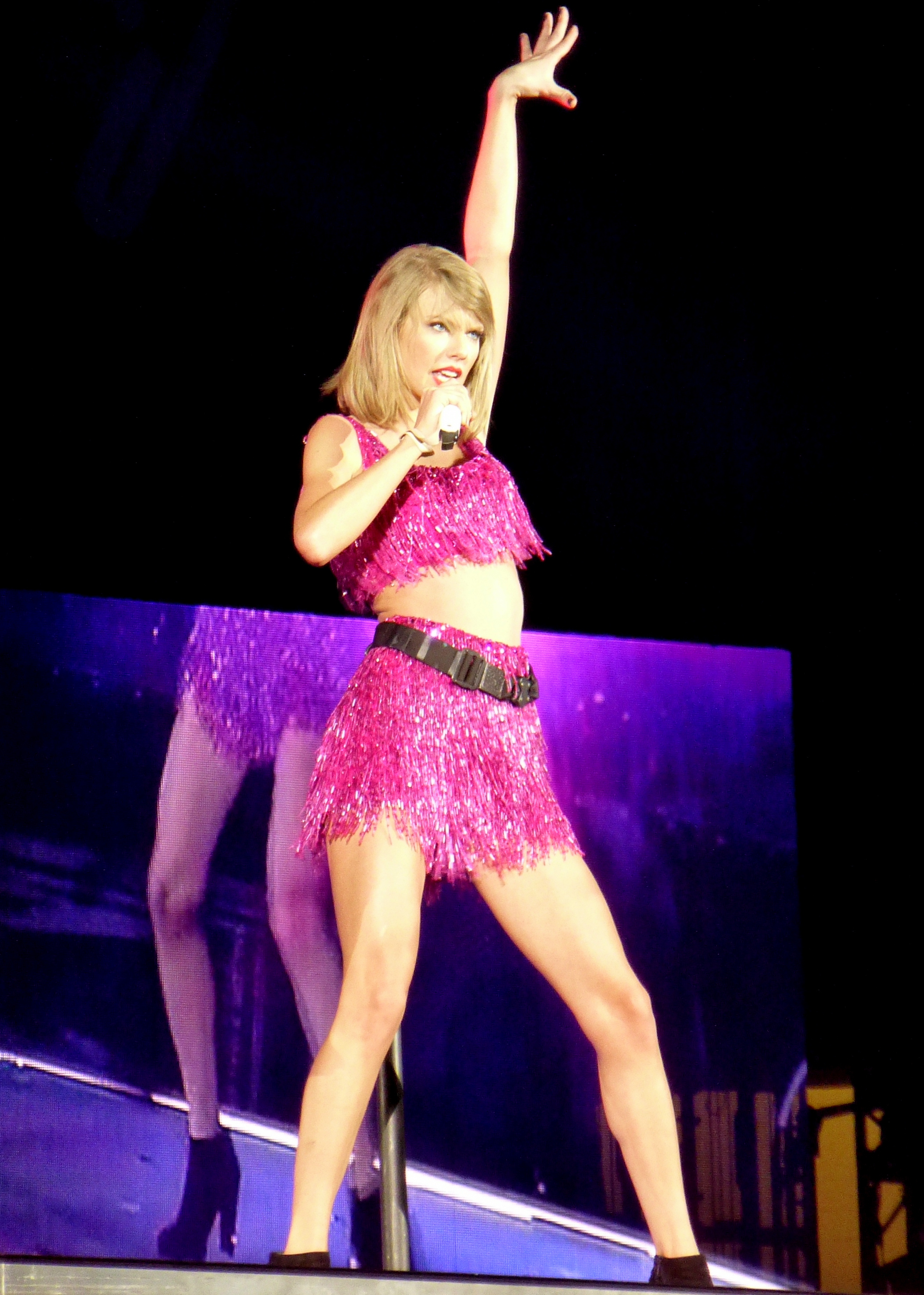 Taylor Swift 1989 Tour at Ford Field in Detroit, 5/30/15